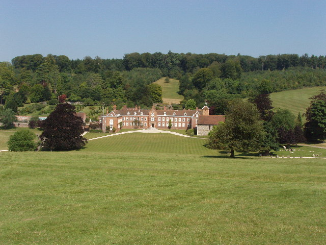 Stonor House from the Deer Park. View from the footpath to the South of the house. It has been the home of the Stonor family for 800 years. It has a Roman Catholic chapel. It is open to the public.